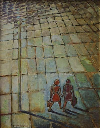 Oil painting Schulweg 49x67 cm, (WV-Nr.94) by Margret Hofheinz-Döring